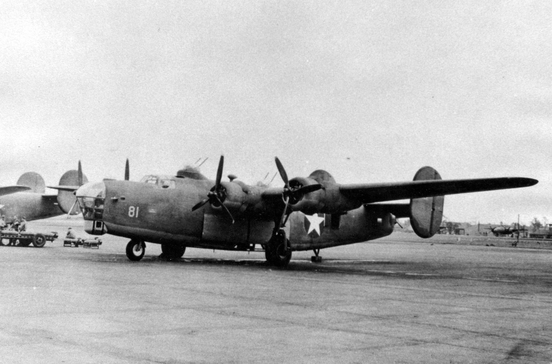 Consolidated XB-41 Liberator modified from an early production model B-24D (S/N 41-11822)